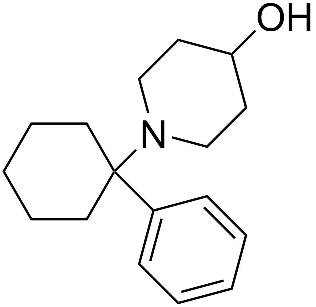 Chemical structure of 1-(1-phenylcyclohexyl)-4-hydroxypiperidine (PCHP)